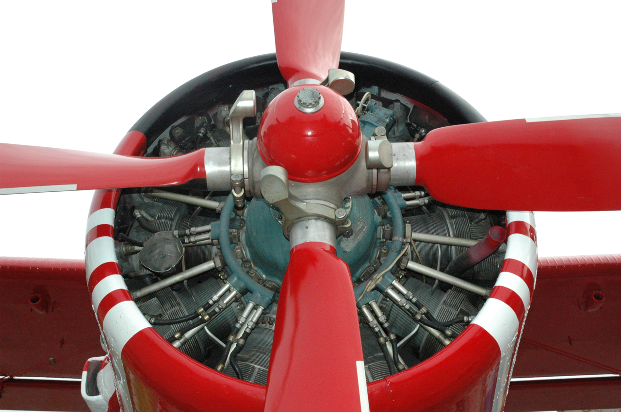 Shvetsov ASh-62 installed in an Antonov An-2 (An-2TP) named "Rusalka", owned and operated by the Antonov Club Avianna (based in Switzerland).